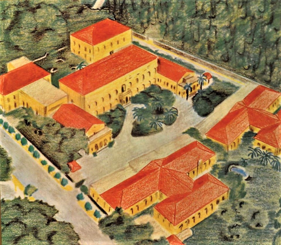 Faculty of Medicine of the USJ Established: 1883